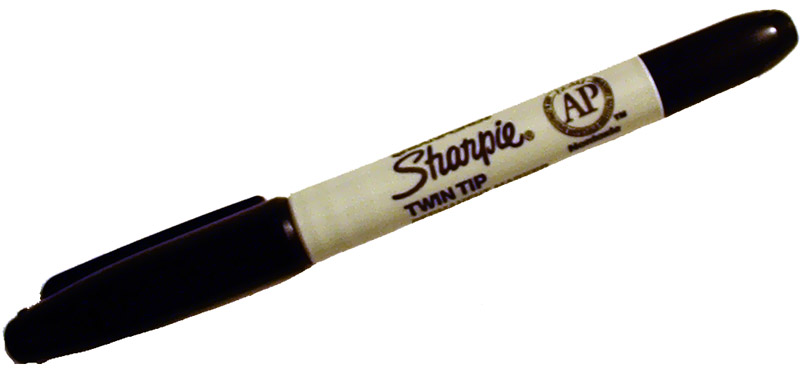 Sharpie marker. Background removed in Photoshop.